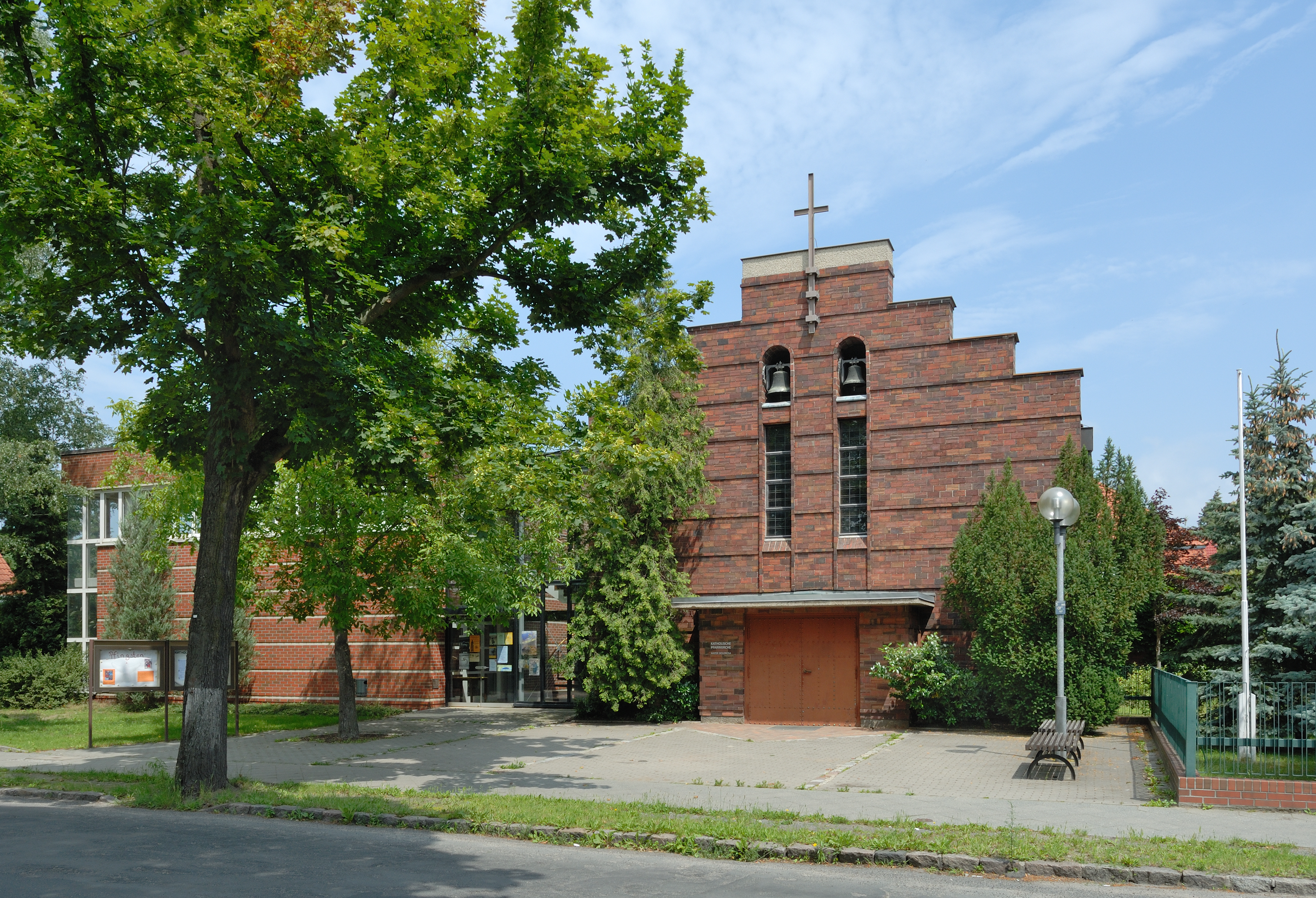 Catholic church Mater Dolorosa in Berlin-Buch.